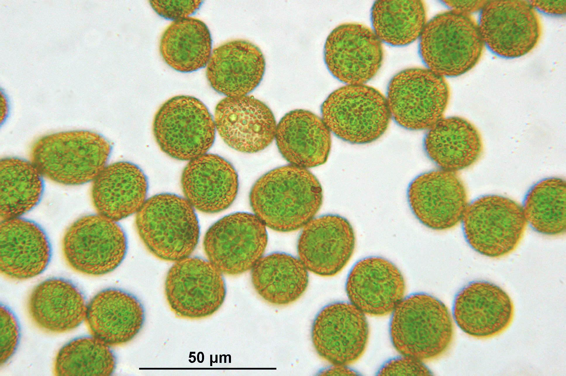 Orthotrichum striatum